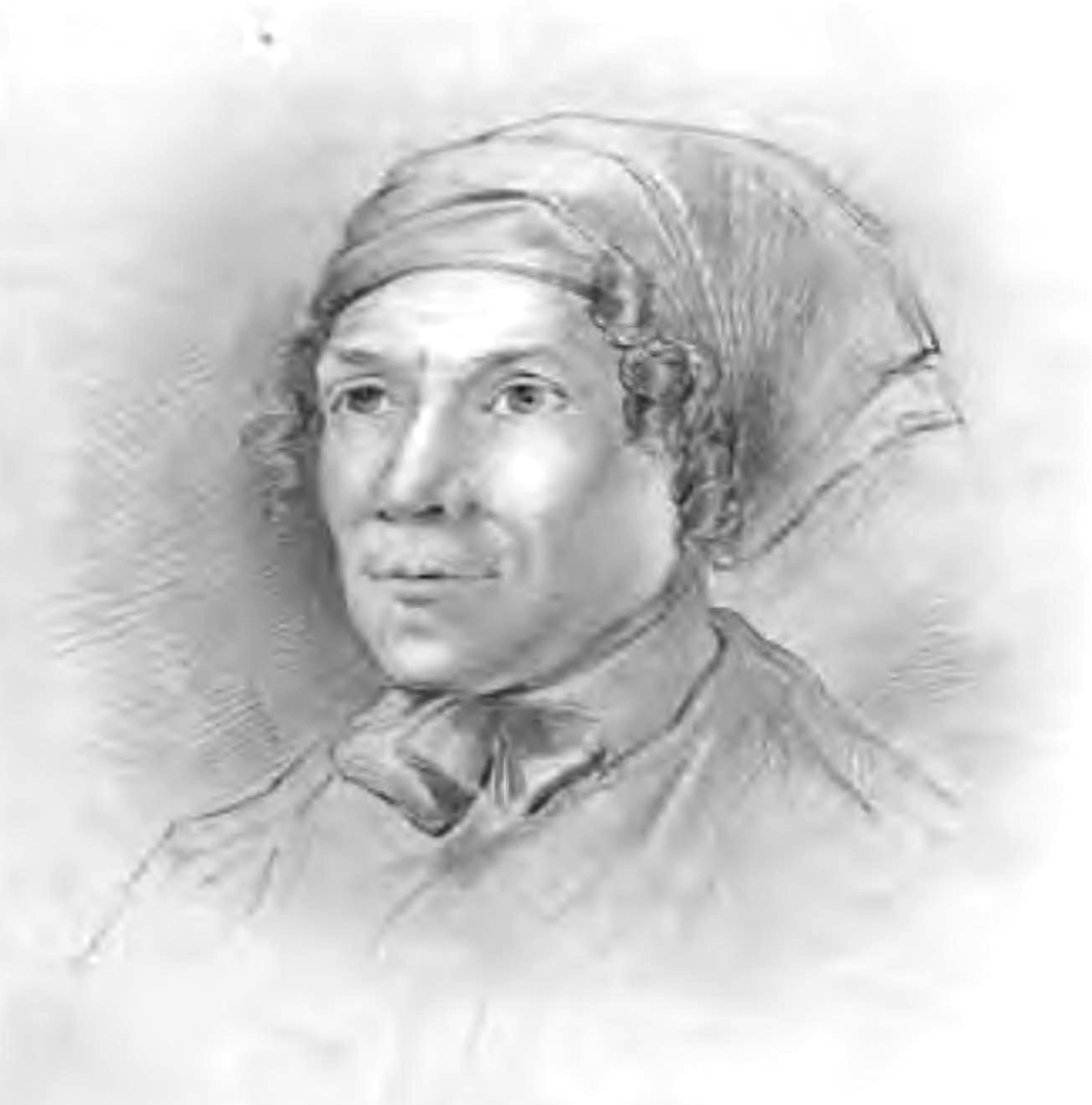 Catherine Blake, Wife of the Artist / p. 44 / From a pencil drawing by George Richmond, made after a drawing from life by Frederick Tatham.